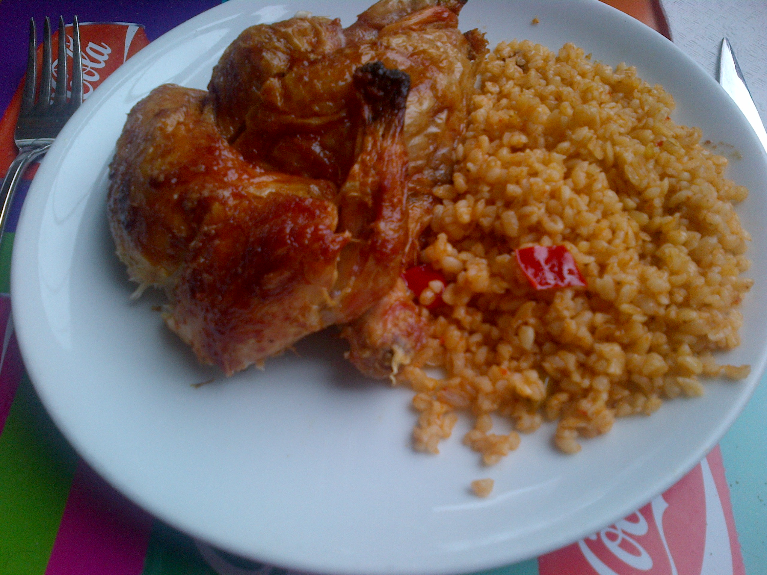 Roasted chicken and "bulgur pilavı" in Turkey.